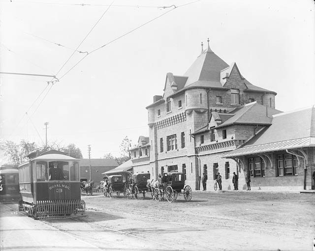 C.P.R. railway station, Broad Street, Lebreton Flats, Ottawa showing Royal Mail street car (archives date says 1880s but it seems the station was really in use between 1901-1920)